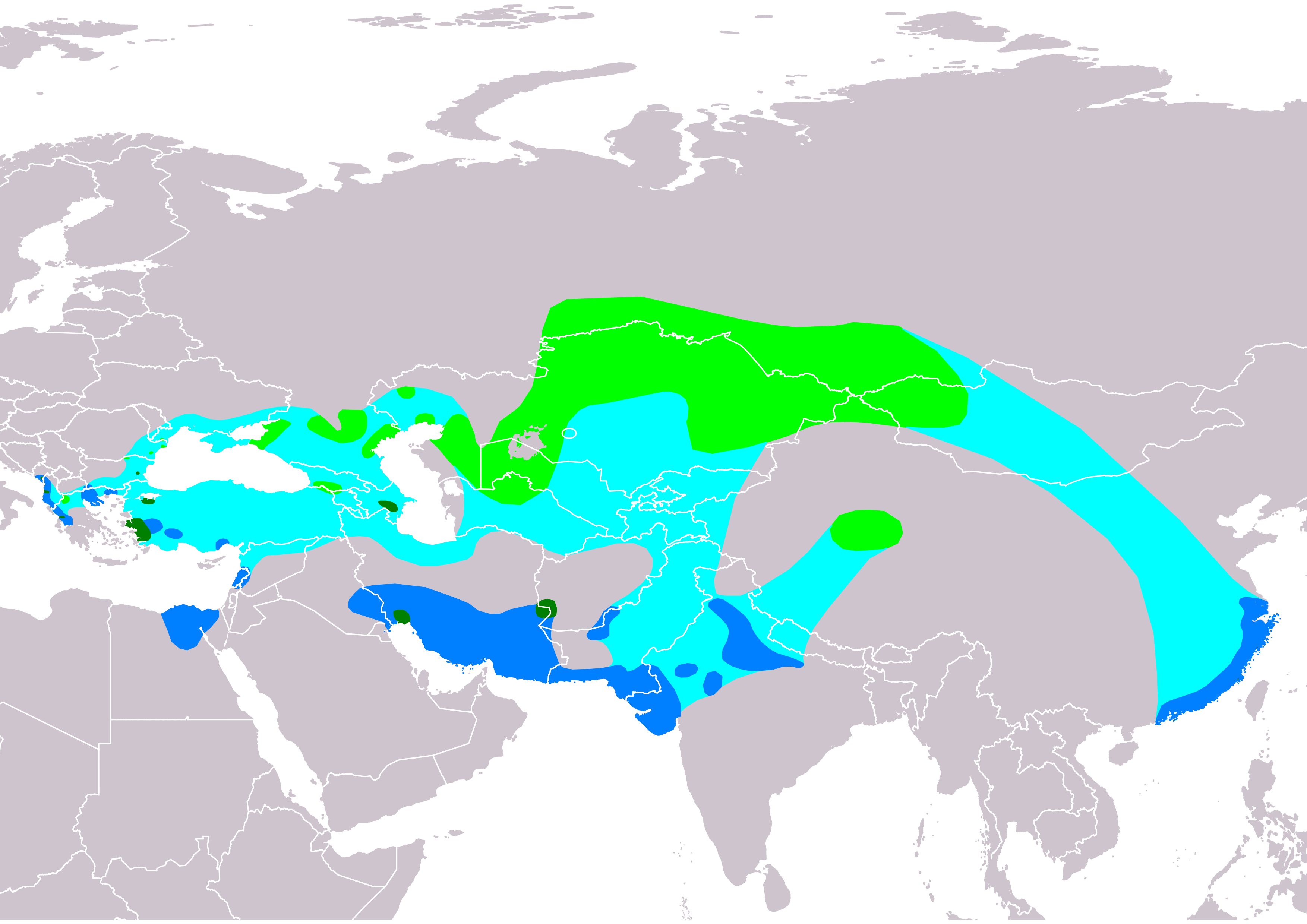 Map of dalmatian pelican (Pelecanus crispus) according to IUCN version 2018.2, Legend: Extant, breeding (#00ff00), Extant, resident (#008000), Extant, passage (#00ffff), Extant, non-breeding (#007fff).